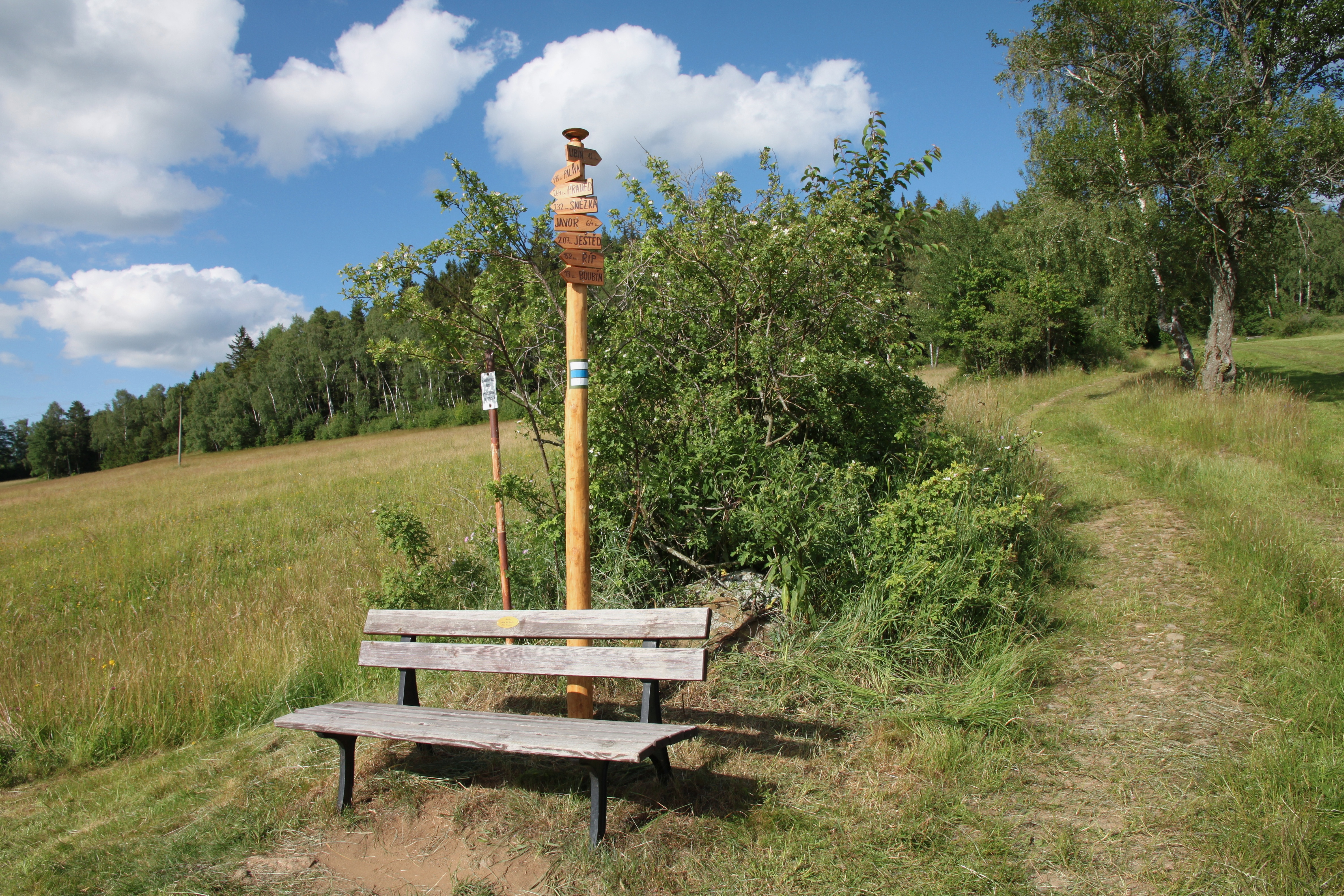 Jan Stráský's bench. Libínské Sedlo, a part of the Prachatice Municipality, South Bohemian Region, Czechia. There is a panoramic view of Boubín (1362 m), Bobík (1264 m) and Libínské Sedlo (850 m) from the bench.